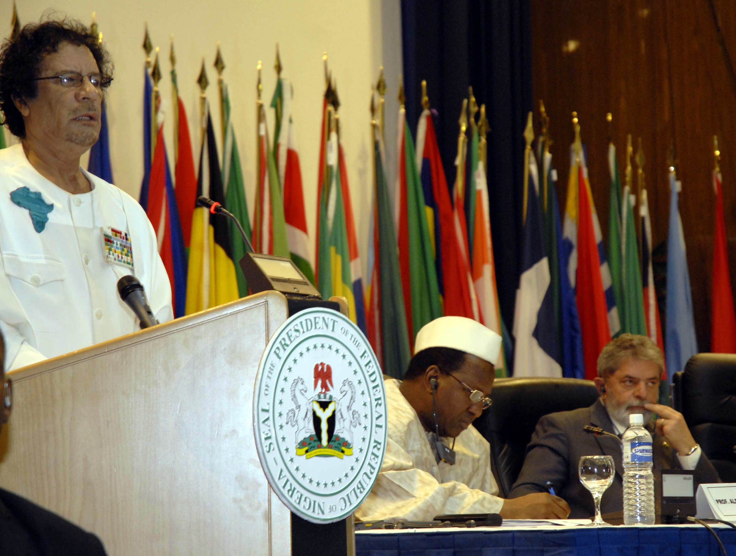 The "Guide of the Revolution" of Libya, Muammar al-Gaddafi, during a conference in Nigeria. Seated: Alpha Oumar Konaré, former president of Mali and Chairperson of the African Union Commission, and Luís Inácio Lula da Silva, president of Brazil.